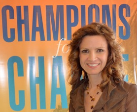 Jane Poynter in front of Champions for Change Poster